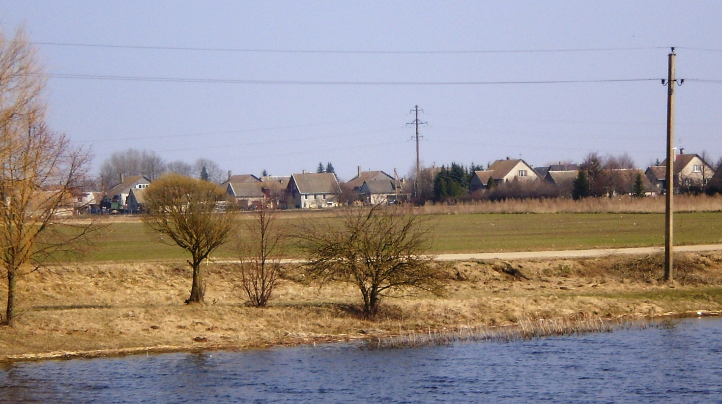 Aristava village from Bubliai dam. Kėdainiai dst., Lithuania